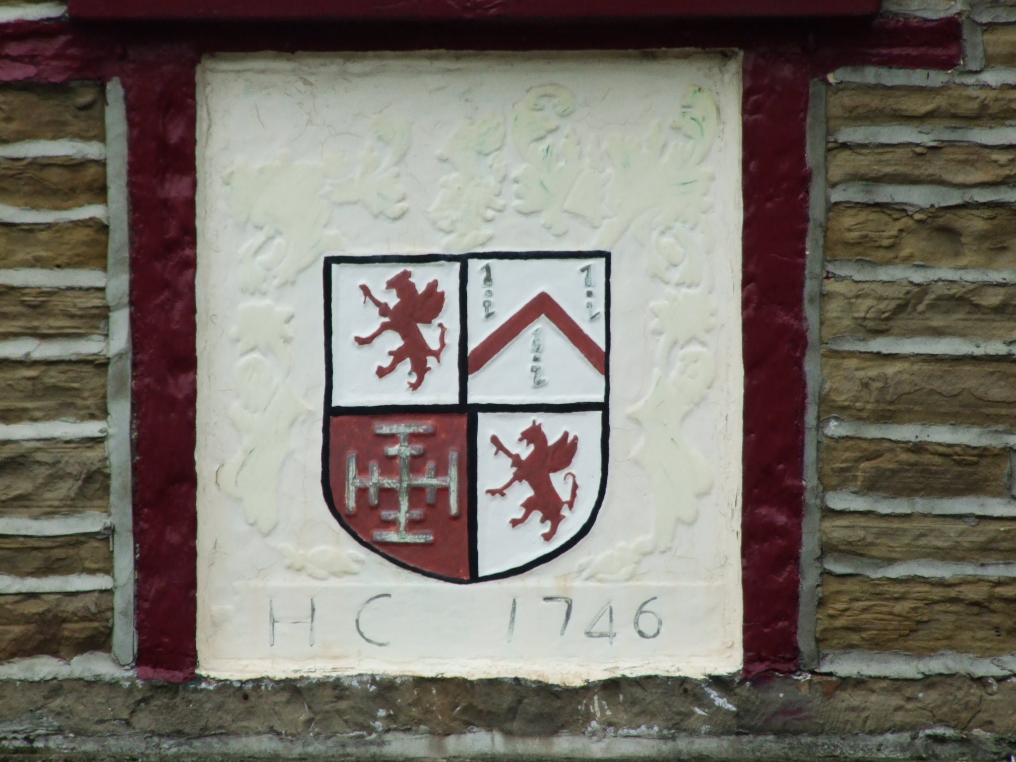 The arms of the Chetham family as carved above the door of the "Chetham Arms" pub, Chapeltown, Lancashire, England.